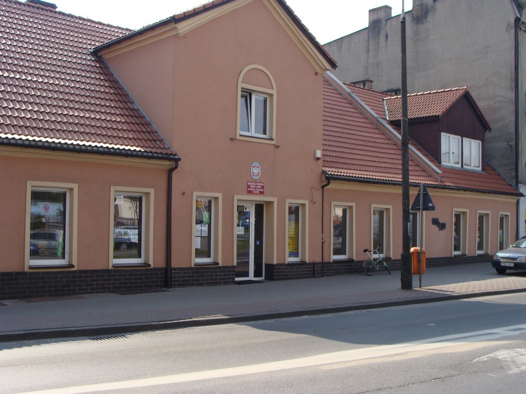 Śrem, Library of name of Heliodor Święcicki.